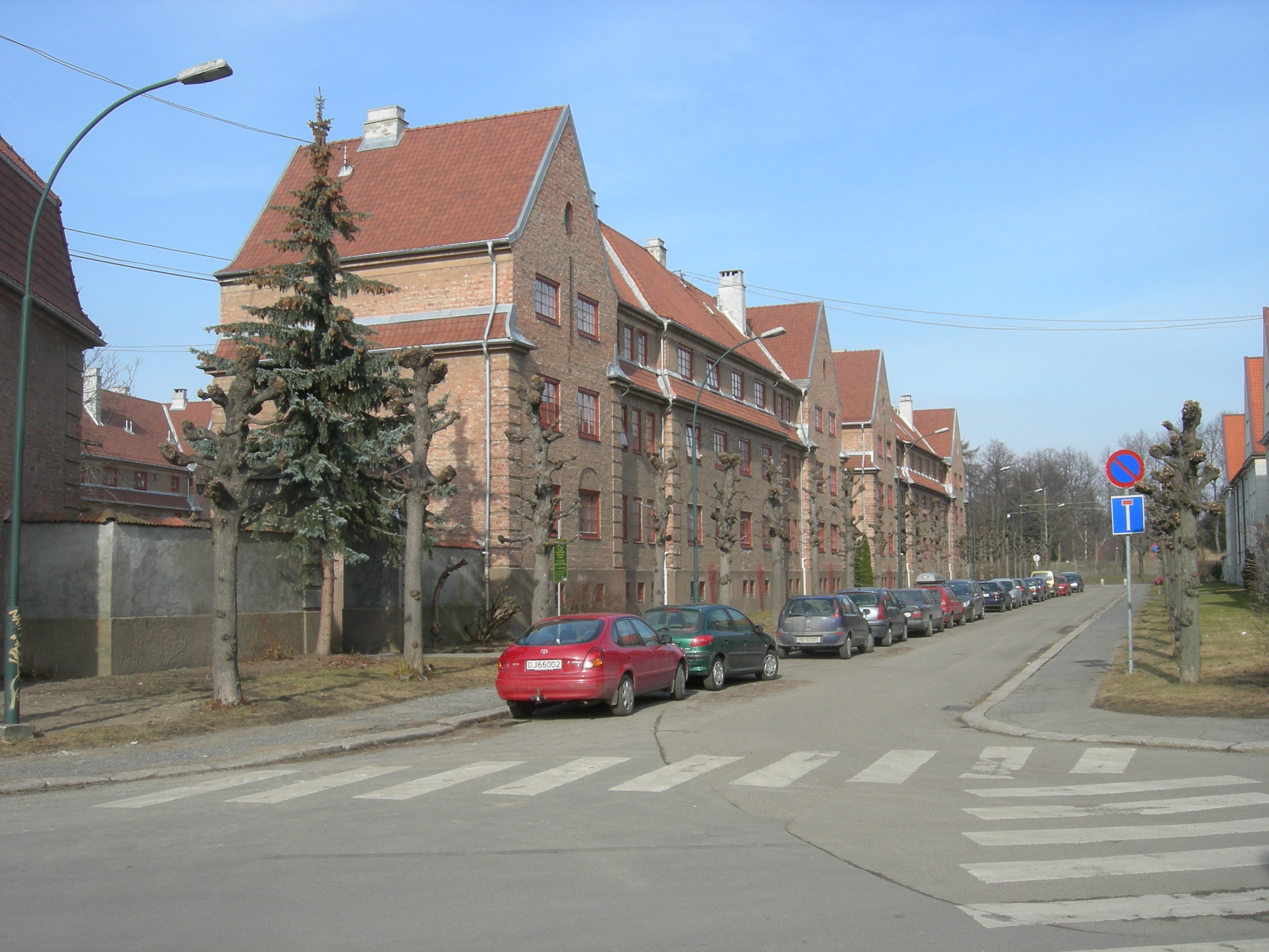 Fayes gate, Lindern, Oslo